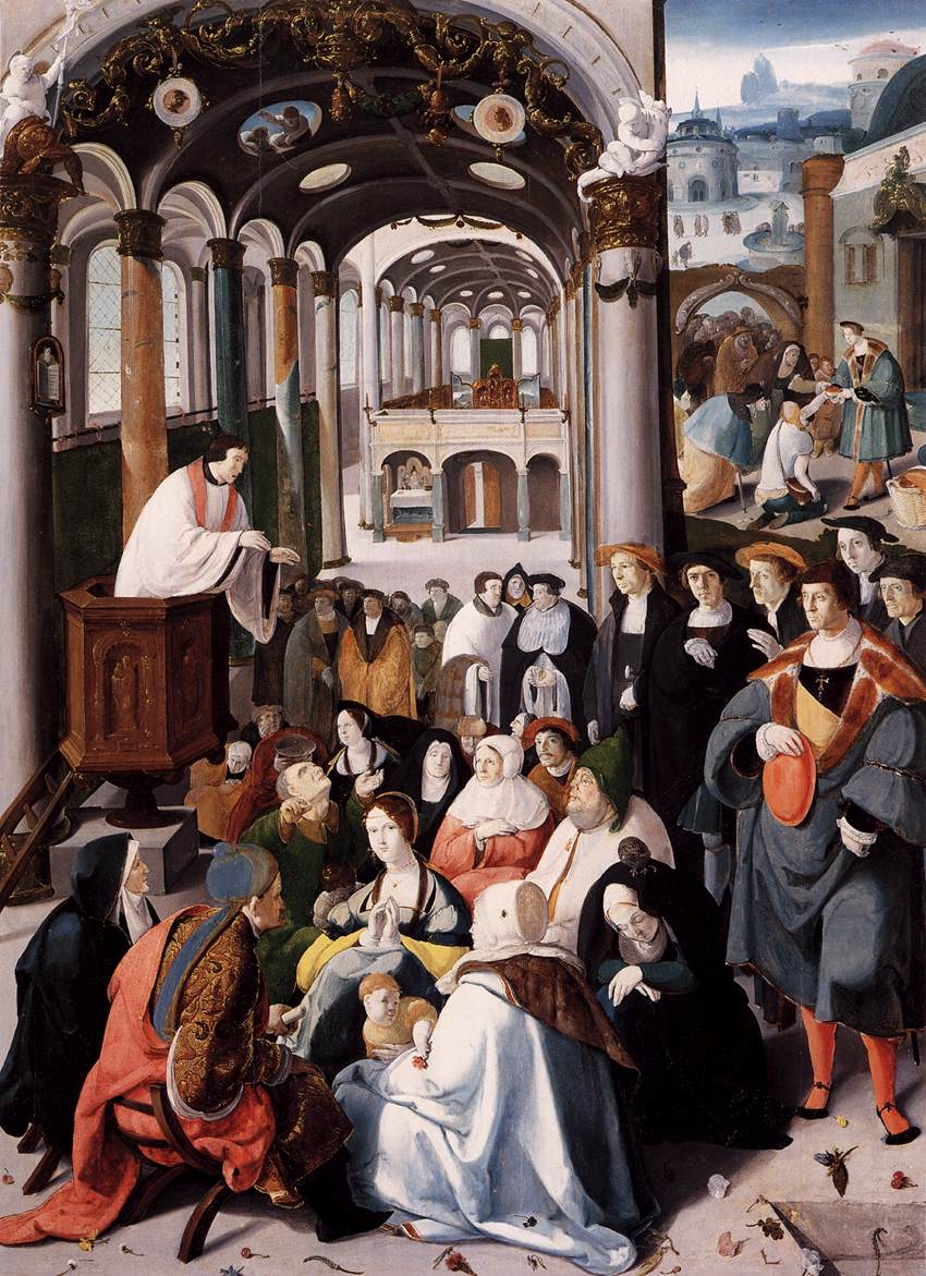 The calling of Saint Anthony. View into a church where a priest wearing a surplice is preaching from his pulpit to a group of men and women. Behind the priest hangs a small painting showing Moses holding the Ten Commandments. The foreground is sprayed with flowers. To the right Saint Anthony is standing listening to the sermon as are five other men behind him, who seem to be the donors of the painting. In the background Saint Anthony is handing out bread to the poor and the crippled. Further inside the church a rood screen stands, separating the nave from the choir in which the altar is just recognisable through the altarpiece standing on top of it.